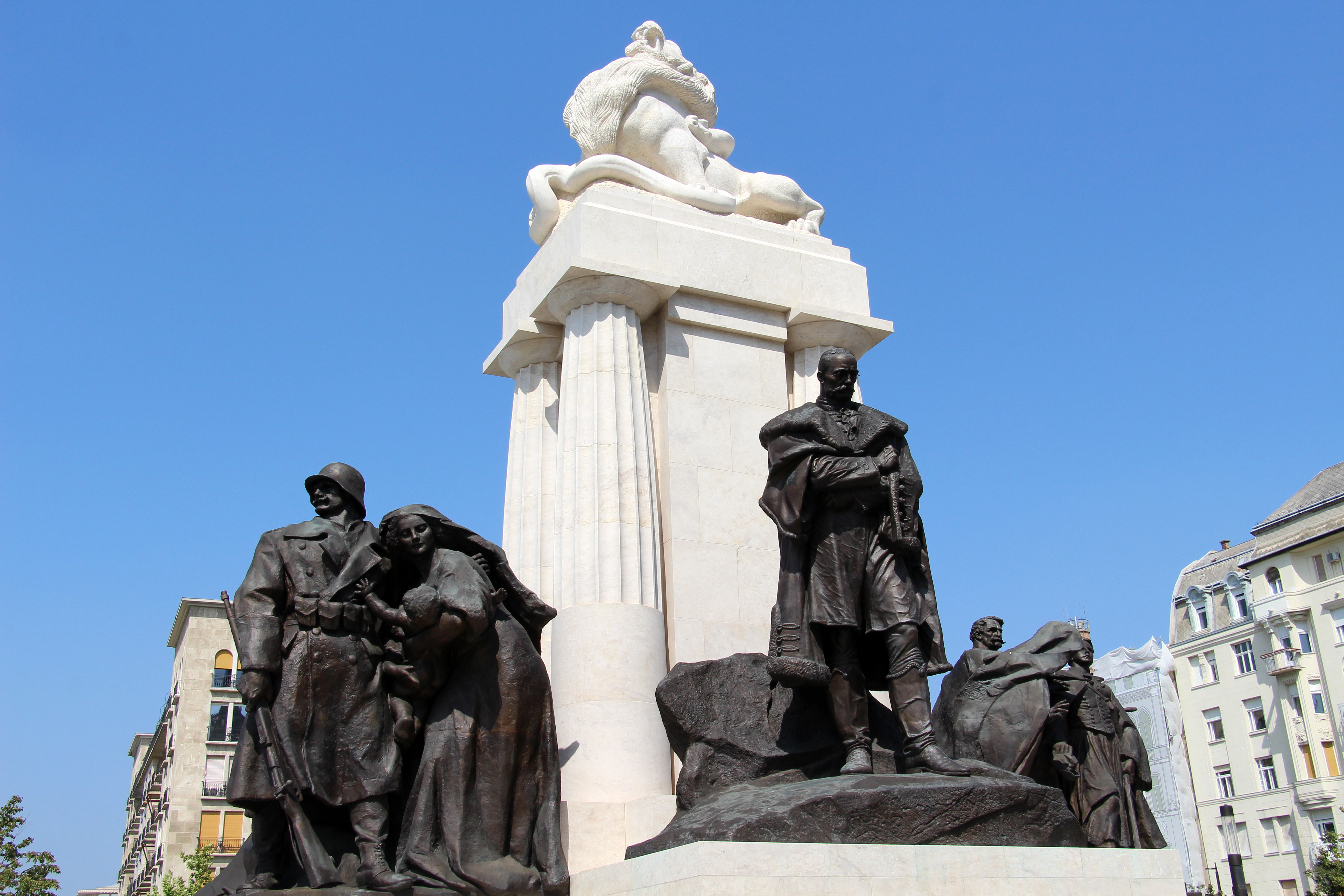 Lipótváros - Kossuth Lajos tér Count István Tisza Monument by Ernő Foerk, György Zala and Antal Orbán, 1934. During World War II, the memorial was damaged during the siege of Budapest, the memorial itself was finally disassembled in the spring of 1948. István Tisza's reconstructed monument was restored to its original place, inaugurated on June 2014.